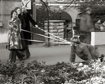 Valie EXPORT Society remake-performance "From the Portfolio of Doggedness" (2000, Tallinn)